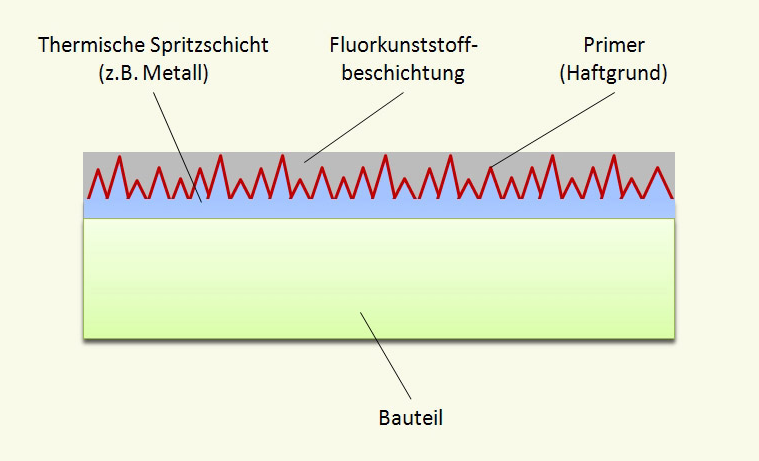 PTFE (polytetrafluorethylene) is a fully fluorinated polymer and is known as Teflon® by the company DuPont. PTFE, in contrast to other fluoric plastics, cannot be processed like conventional thermo-plastics (e.g. extruding, injection molding, etc.). Work pieces made of PTFE are, for example, pressed out of PTFE-powder under high pressure and sintered afterwards. PTFE-coatings are often applied with wet-varnish-procedures onto the work pieces. Therefore PTFE-particles in dispersion (e.g. with according carrier resins) are sprayed onto the work piece and dried afterwards.